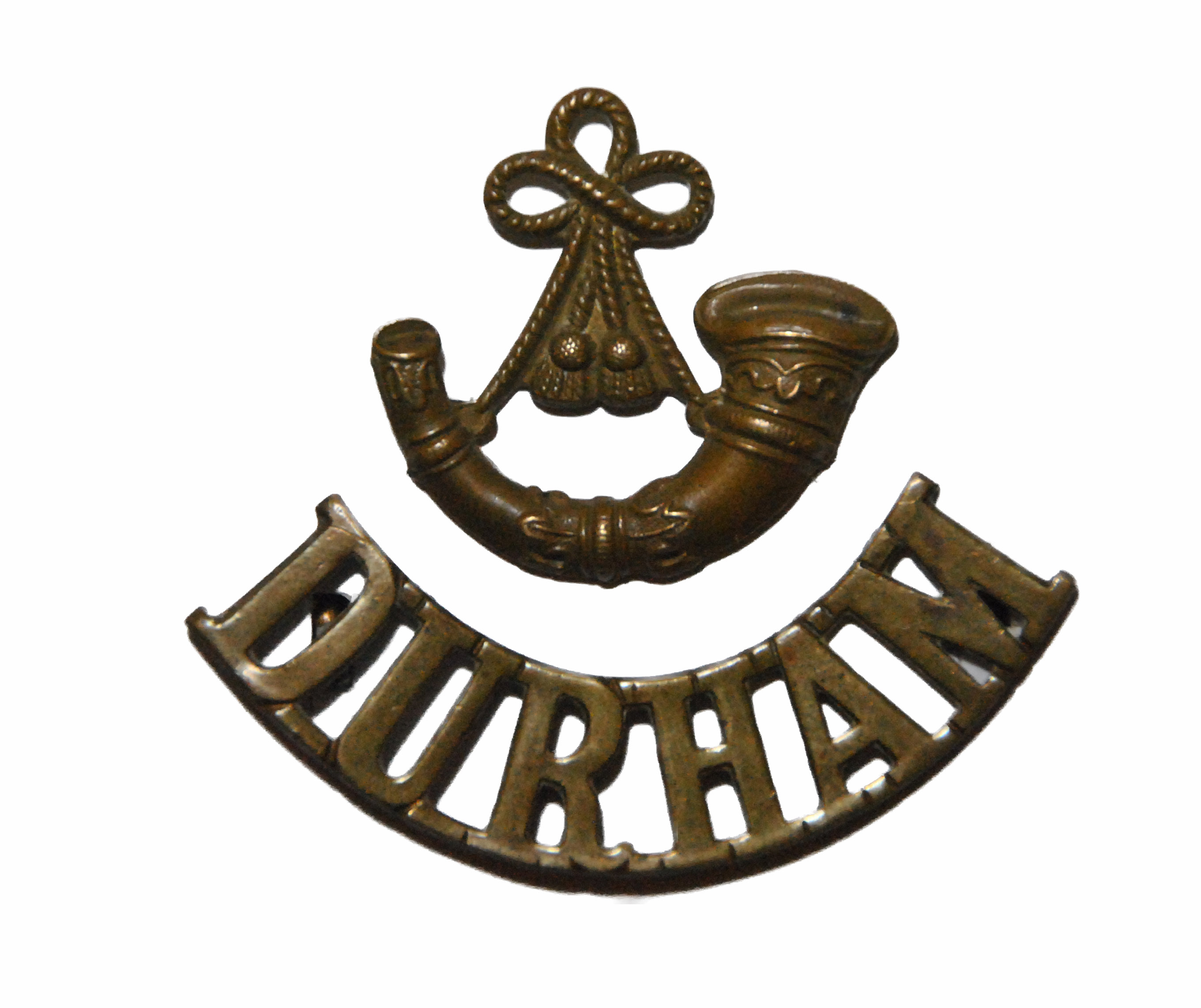 Brass shoulder title (2 piece) as used by regulars and service battalions in WW1